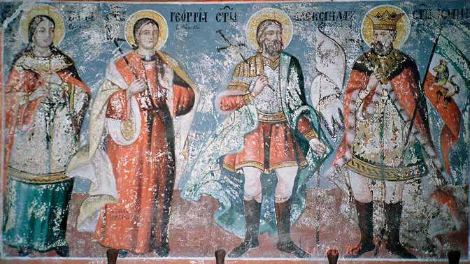 Saint Nicholas Church in Topolnitsa Saint Vasa of Thessaloniki, Saint George of Sofia, Saint Alexander of Neva and Tsar Ivan Shishman